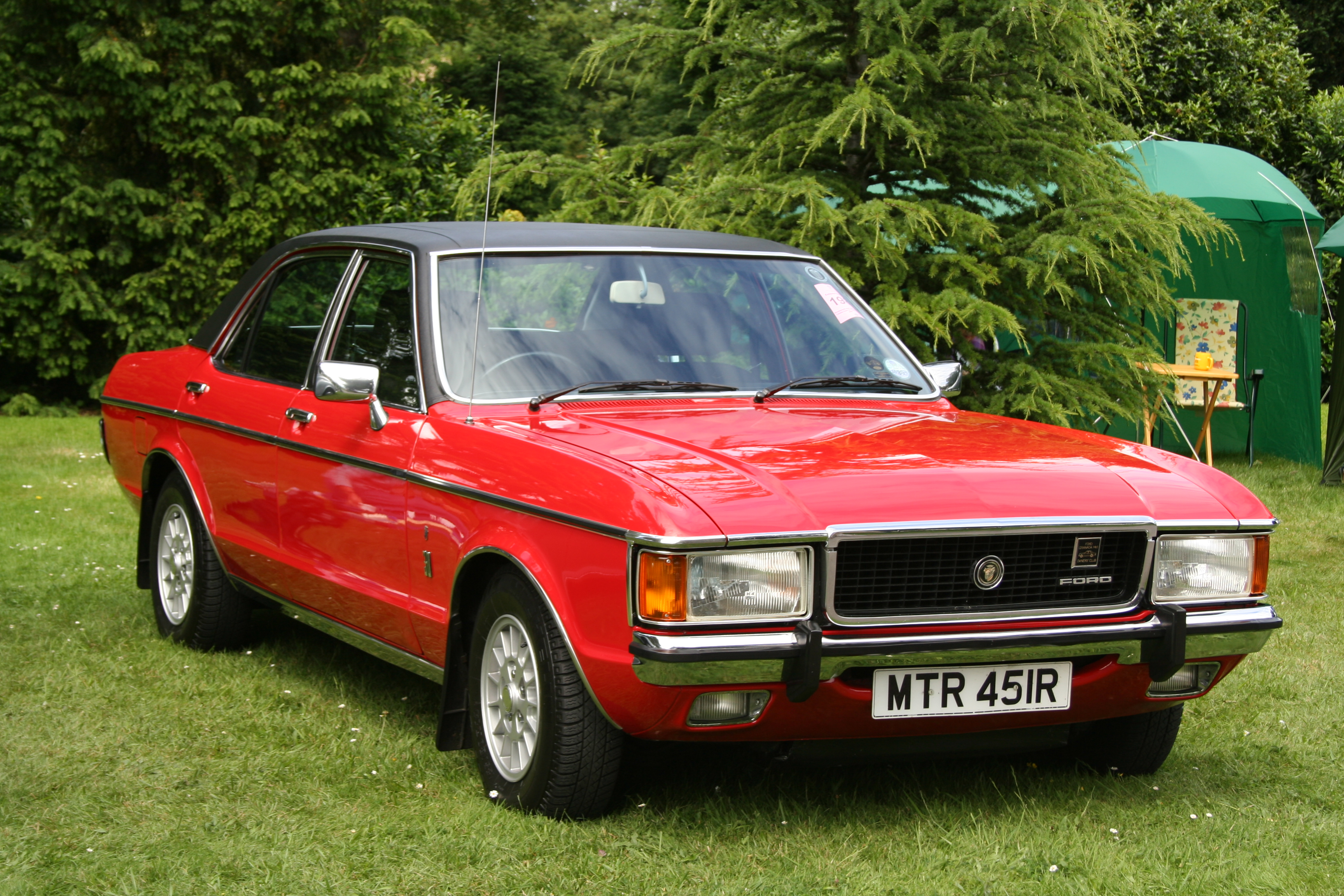 Ford Granada, shown at "Classic Cars for Father's Day" at Brodsworth Hall, near Doncaster. The owner told me the car was 30 years old, and he had owned it for 29 years.